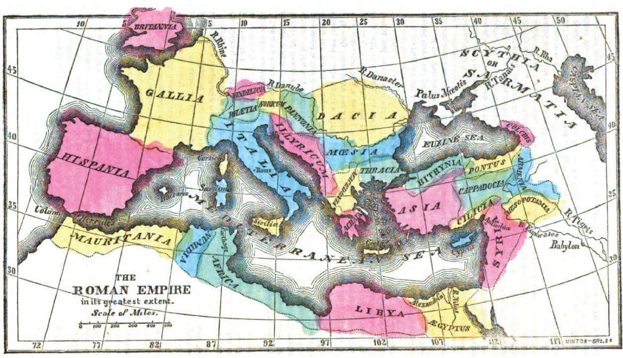 Historical map of Roman empire at its greatest extent